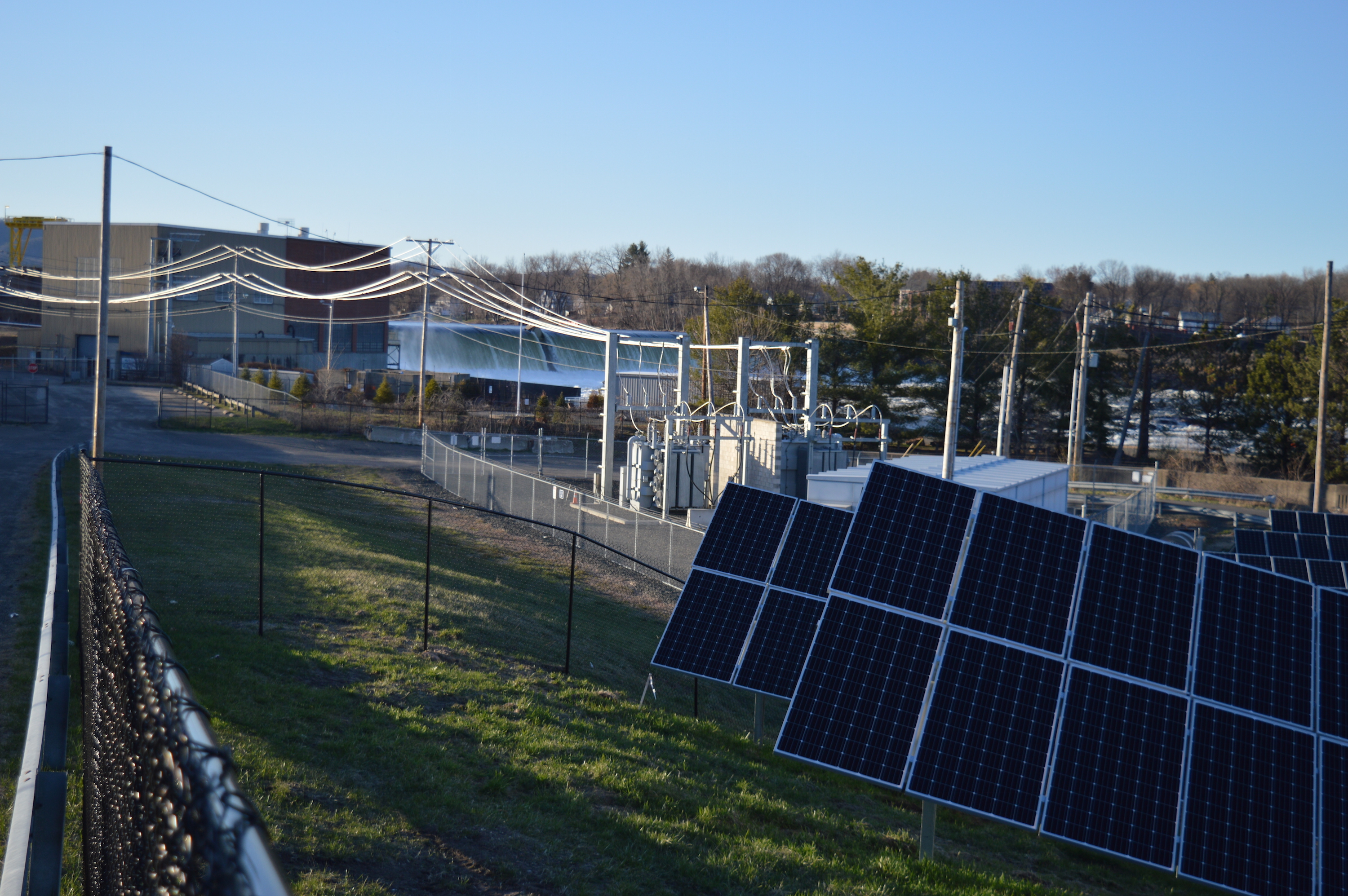 The Holyoke Dam and a solar energy operation, Hadley Mills, a joint partnership between Sunwealth Power, LLC. and Holyoke Gas & Electric.